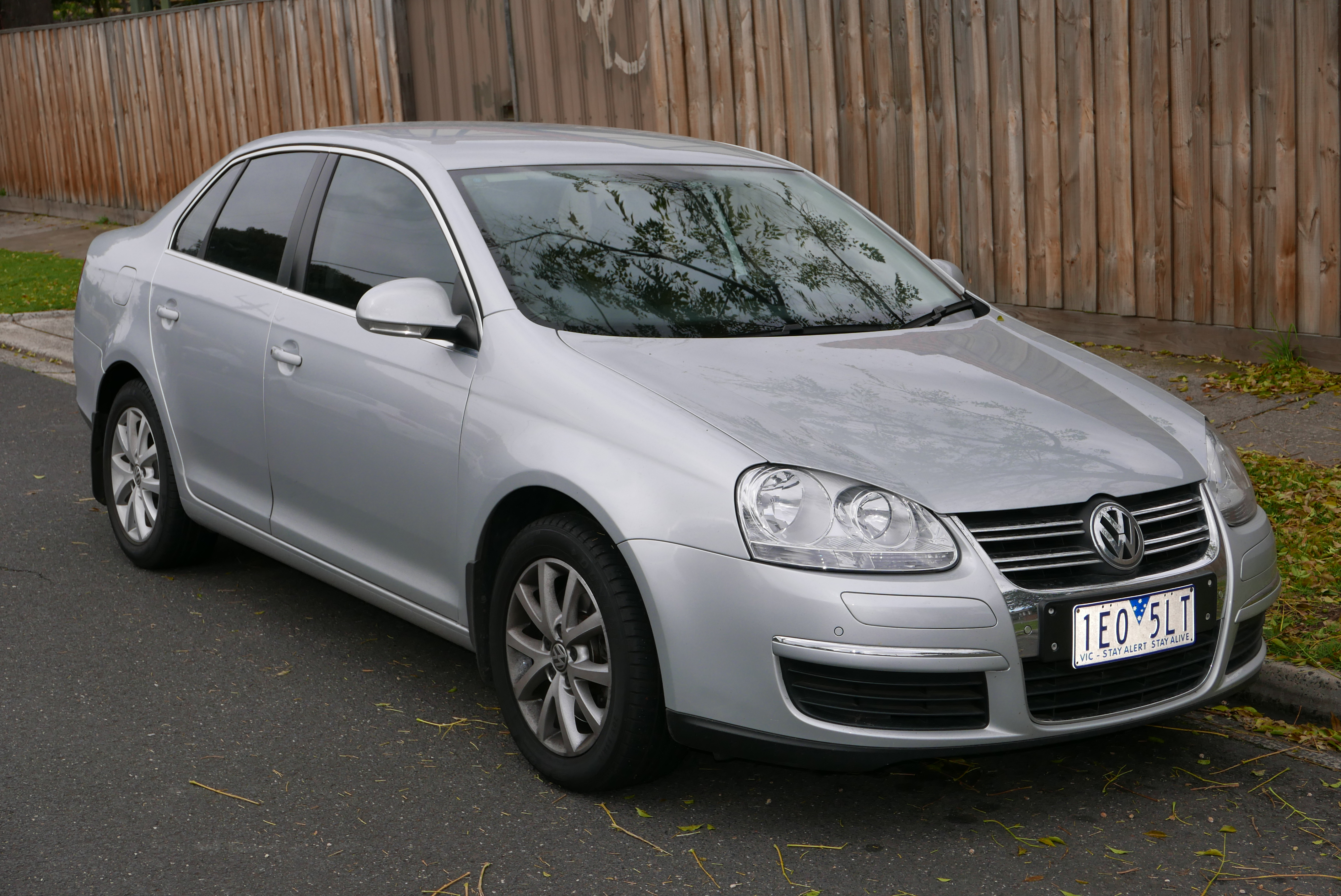 2011 Volkswagen Jetta (1KM MY10) 118TSI sedan. Photographed in Ivanhoe, Victoria, Australia. Vehicle registration enquiry resultsJurisdictionVictoriaRegistration1EO5LTChassis codeWVWZZZ1KZAM176263Engine codeCAV214926Compliance date2011-05Year of manufacture2011